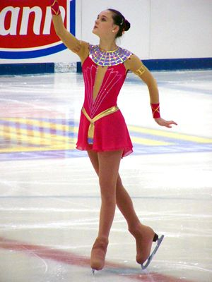 Elena Muhhina during her free skate at the 2004 Junior Grand Prix event in Germany